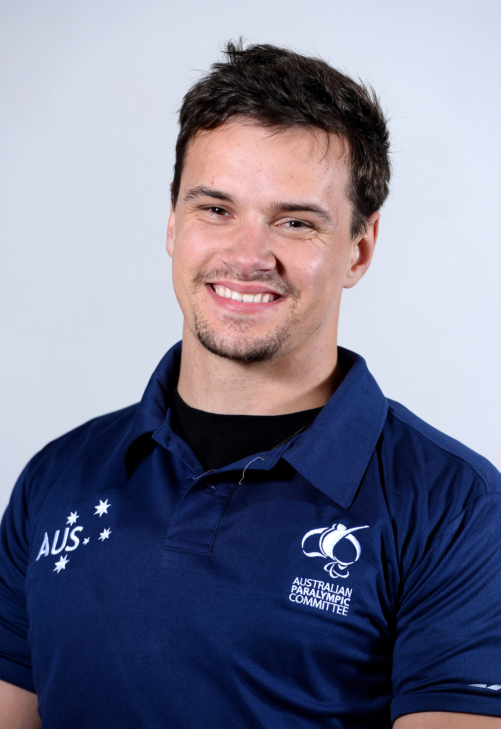 Portrait photograph of Jake Lappin taken at team processing session for shadow members of 2016 Australian Paralympic team